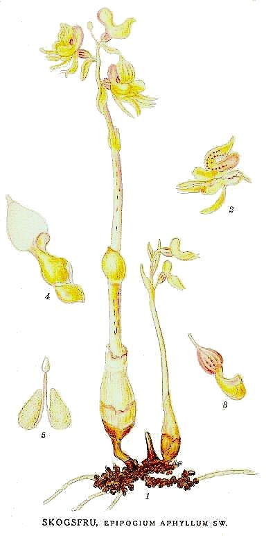 Original Description Skogsfru, Epipogium aphyllum Sw.